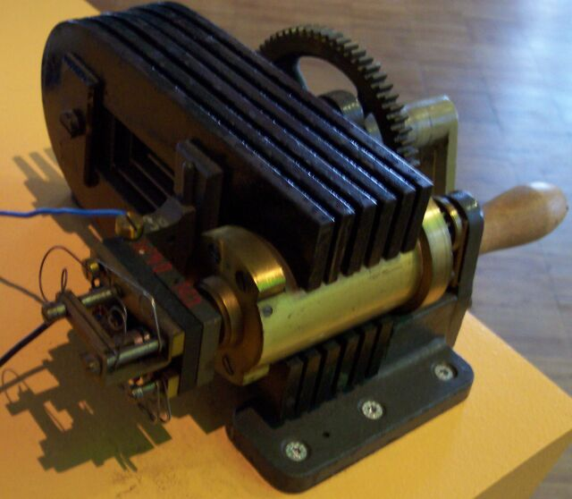 Handcranked dynamo generator.